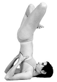 Padma Sarvángásana - Inverted position